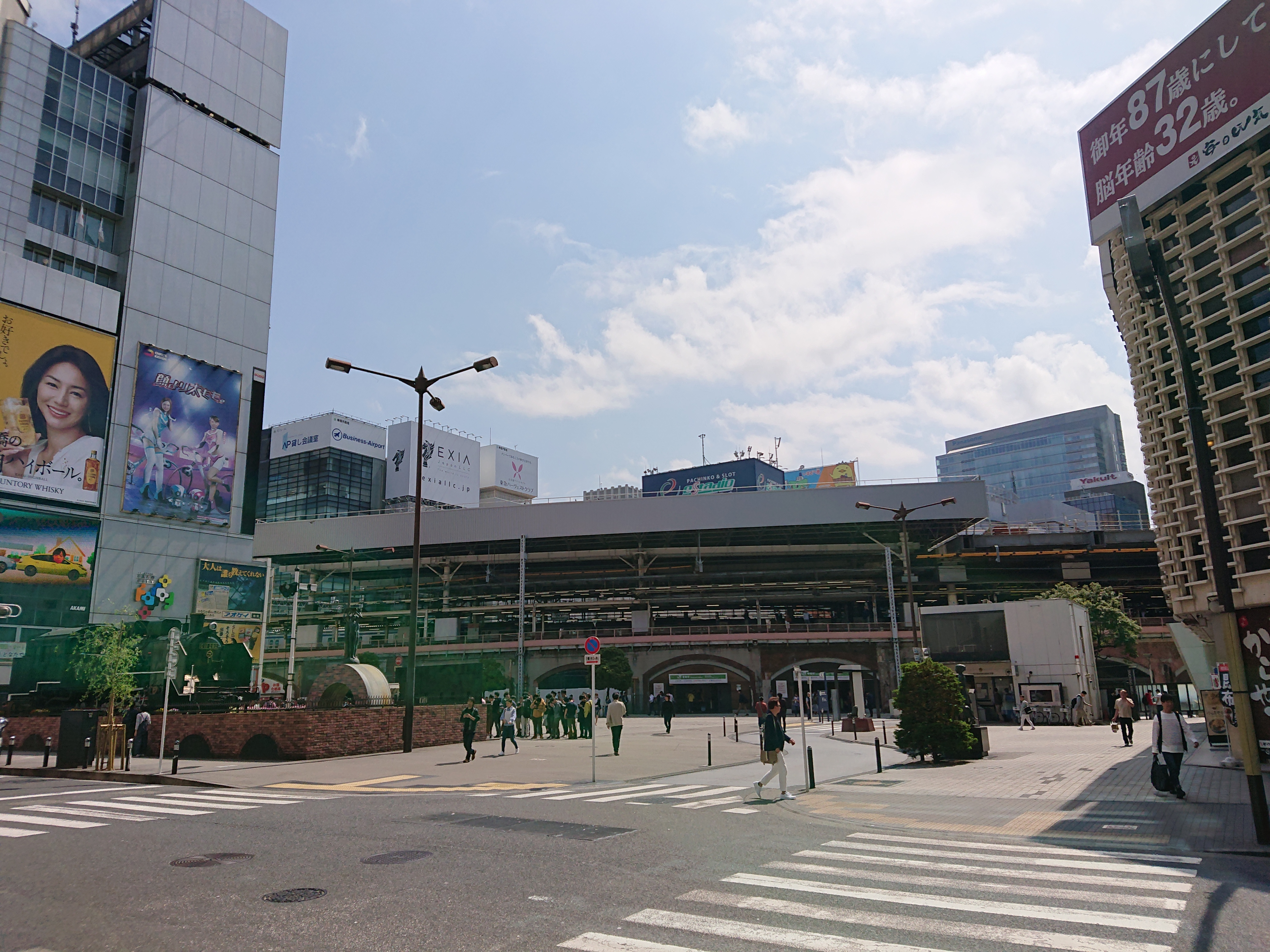 Shimbashi Station, at Minato, Tokyo, Japan